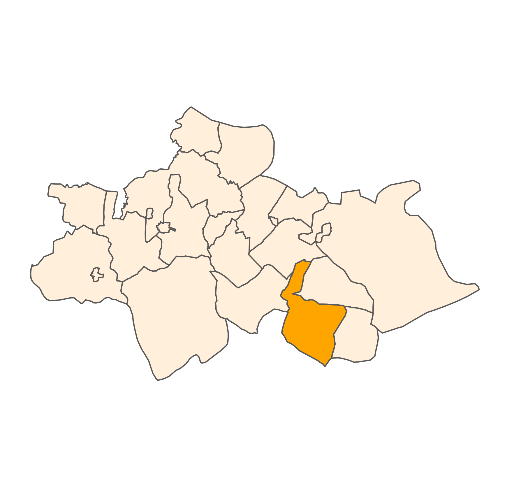 Commune (Orange), Sefrou Province (Antique White)